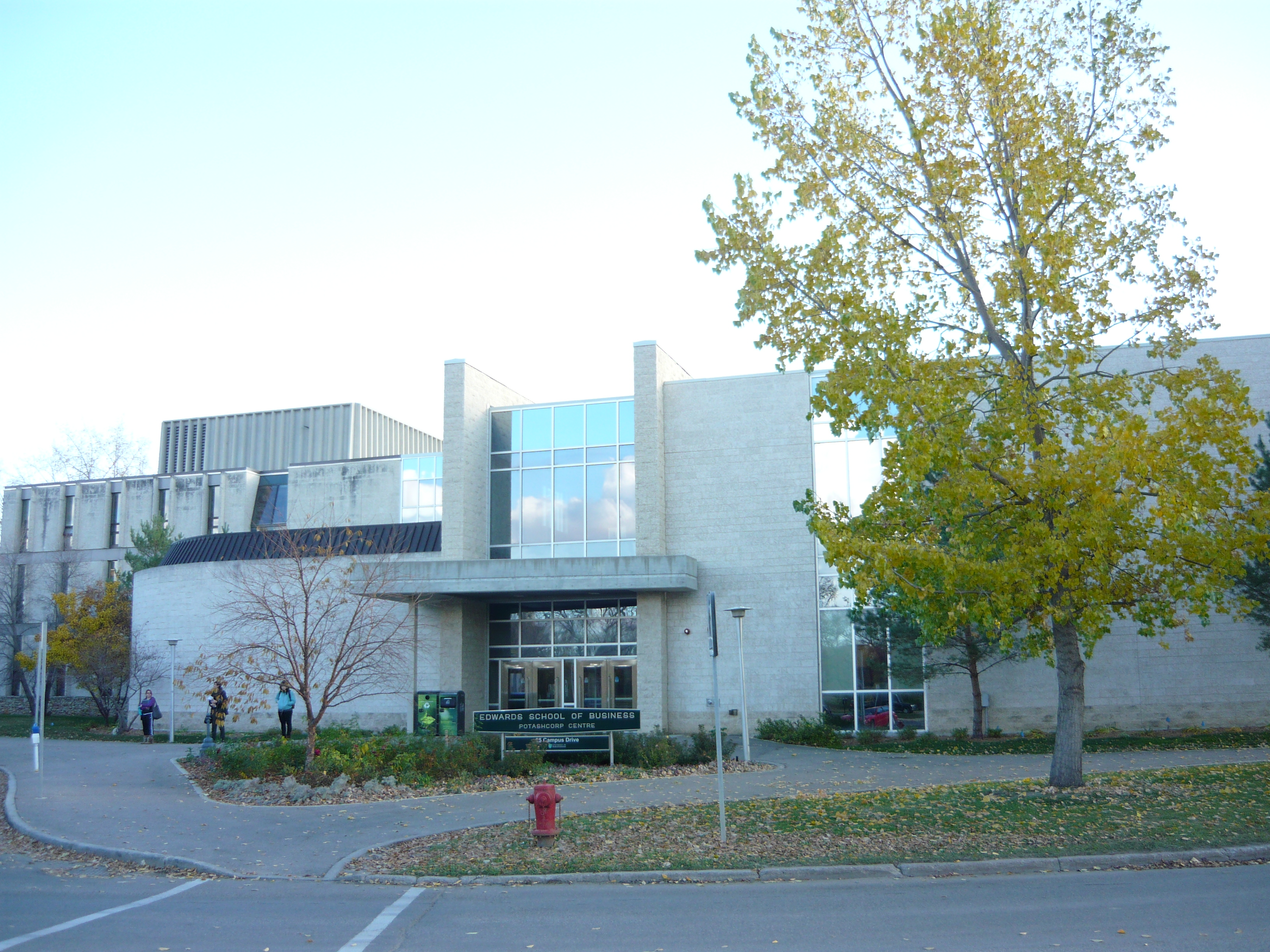 Edwards School of Business (Nutrien Centre, formerly PotashCorp Centre), 25 Campus Drive, University of Saskatchewan, Saskatoon, Saskatchewan, Canada. Opened 2002. Architect: Kindrachuk Agrey Architects Limited. Contractor: Wolfe Management.